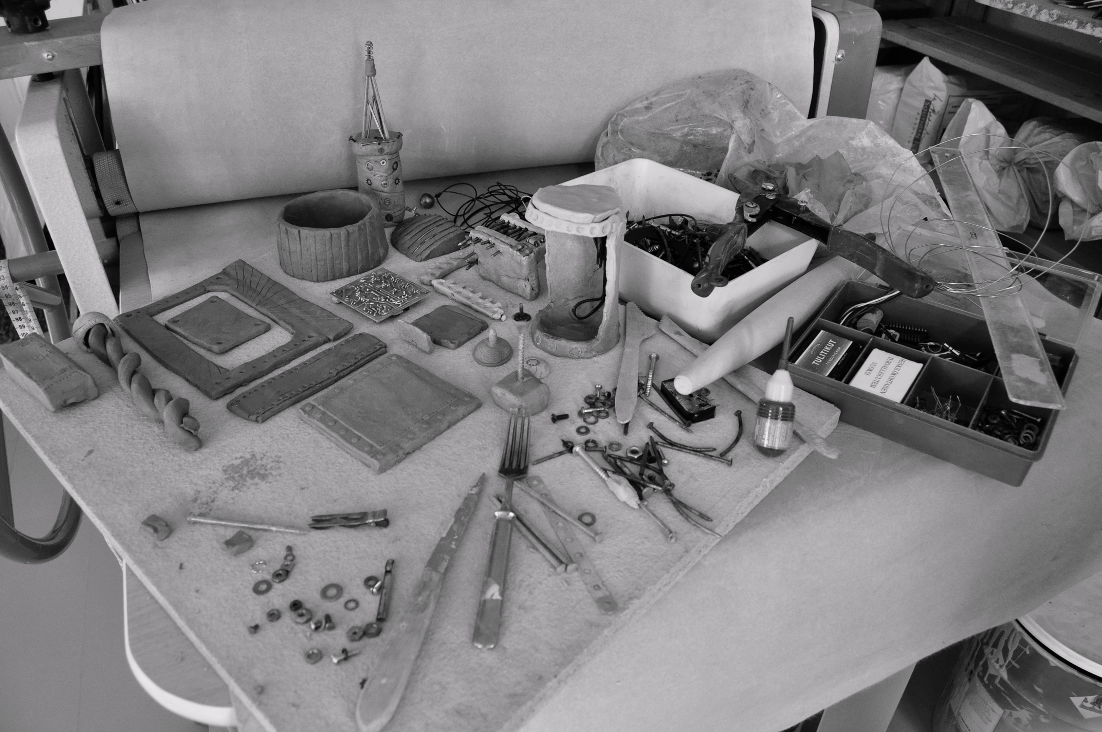 The Swapper is a 2013 video game developed by Facepalm Games. The game's art assets were modelled in clay before being digitized for the game. This photograph shows some of the assets and the tools used to sculpt them.